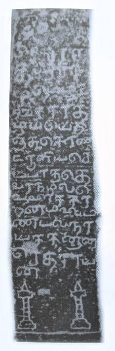 Rankot Vihara Velaikkaran Matevan inscription